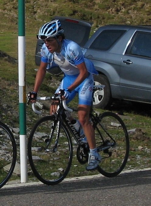 Oliver Zaugg, 2008 Vuelta a España, 8th stage, Port de la Bonaigua, Spain.